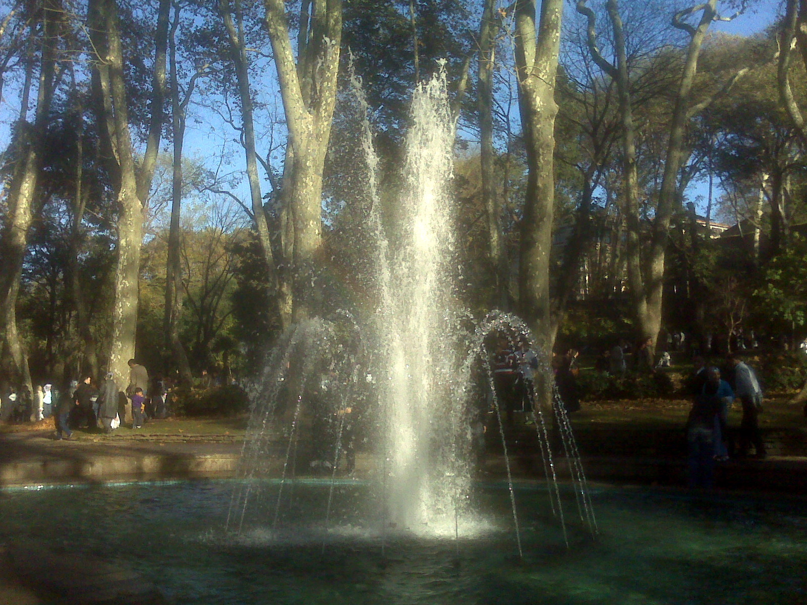 Fountain in Gülhane Park